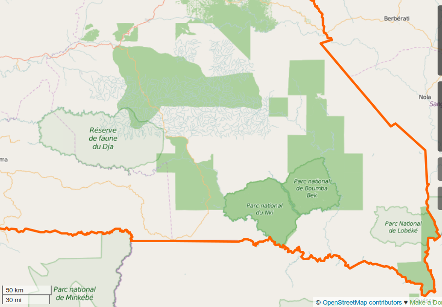 OSM map of Cameroon ː eastern part of the country. This map may be incomplete, and may contain errors. Don't rely solely on it for navigation.